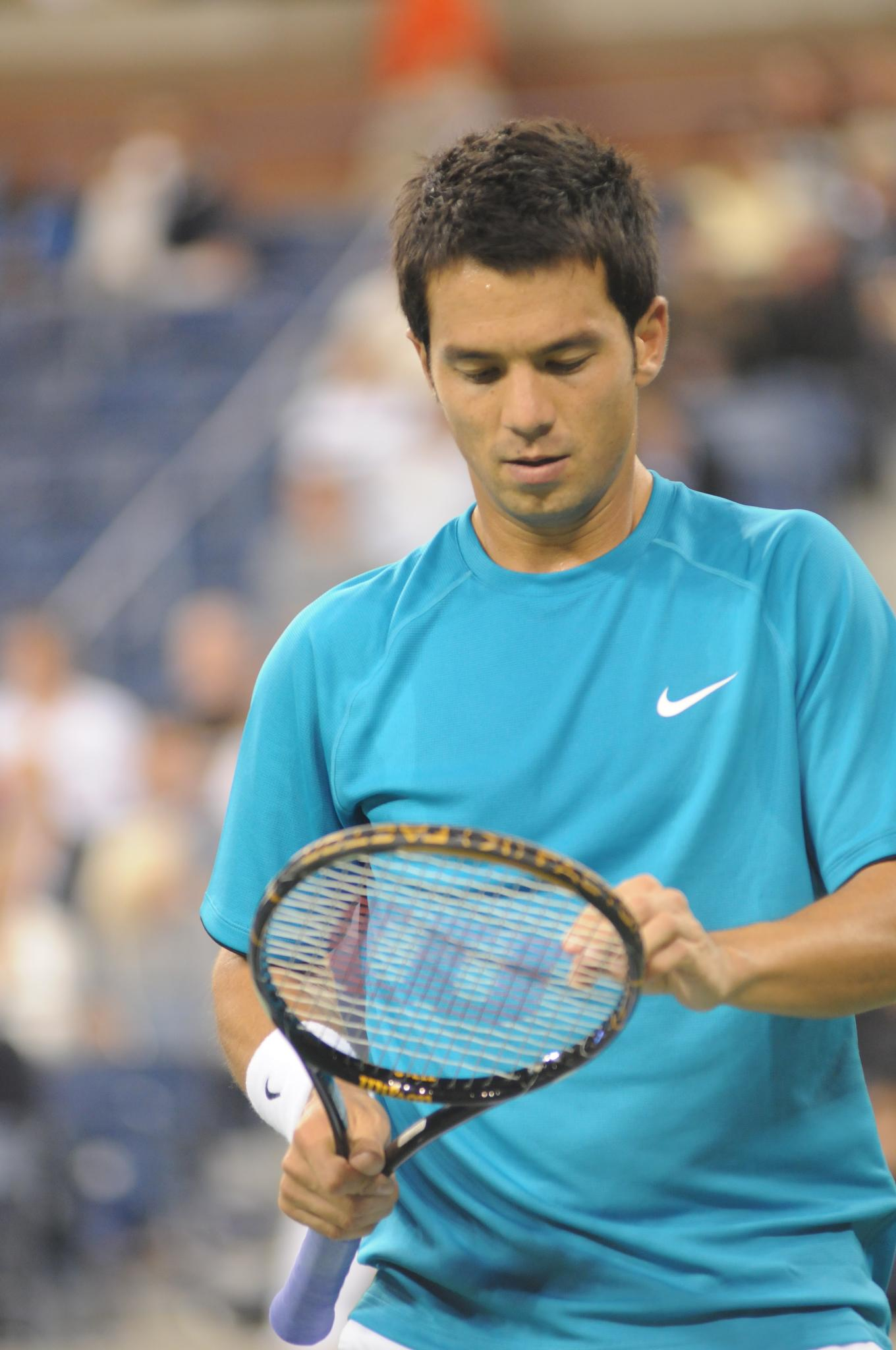 Björn Phau at the 2009 US Open